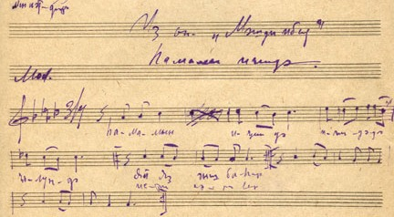 Notes of the music in the scene in bath. "Meshadi Ibad" comedy